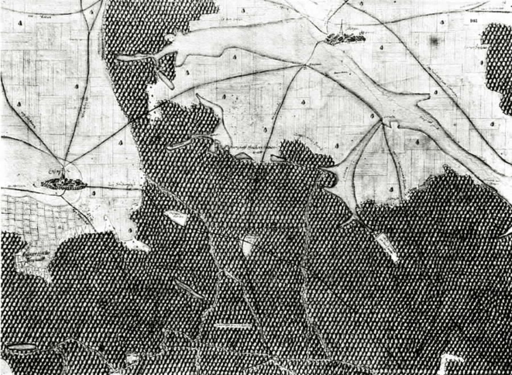 Clip of Andreas Kieser’s forest map